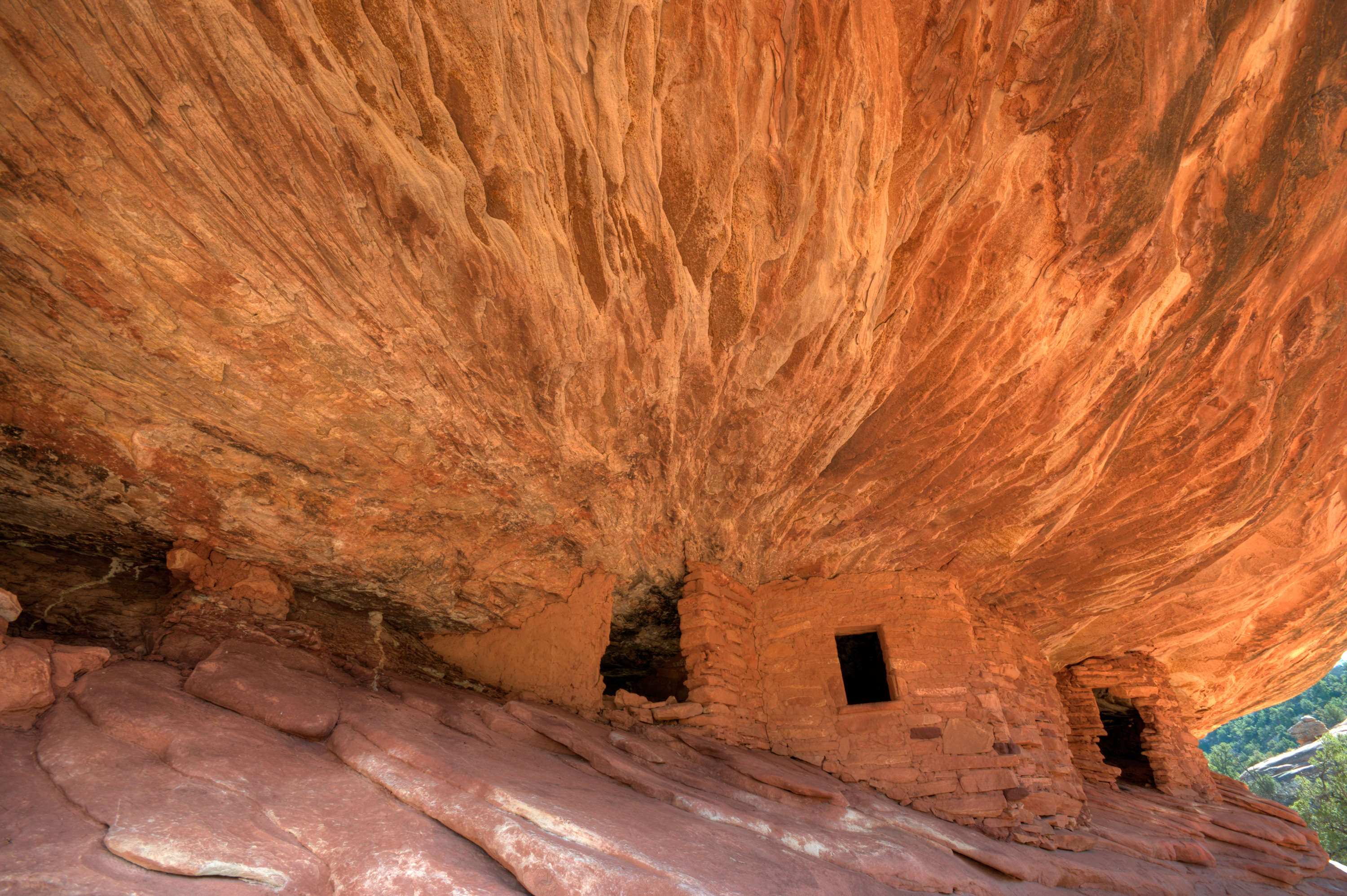 Here's a moderately enhanced version of House on Fire Ruin. Well known Anasazi ruin in upper Mule Canyon near Comb Ridge in Utah.